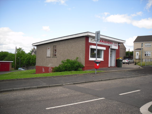 Maidens Professional Ironing & Laundry Service This little property was a small newsagents when i worked as a milkboy & a paper boy when i was a teenager.